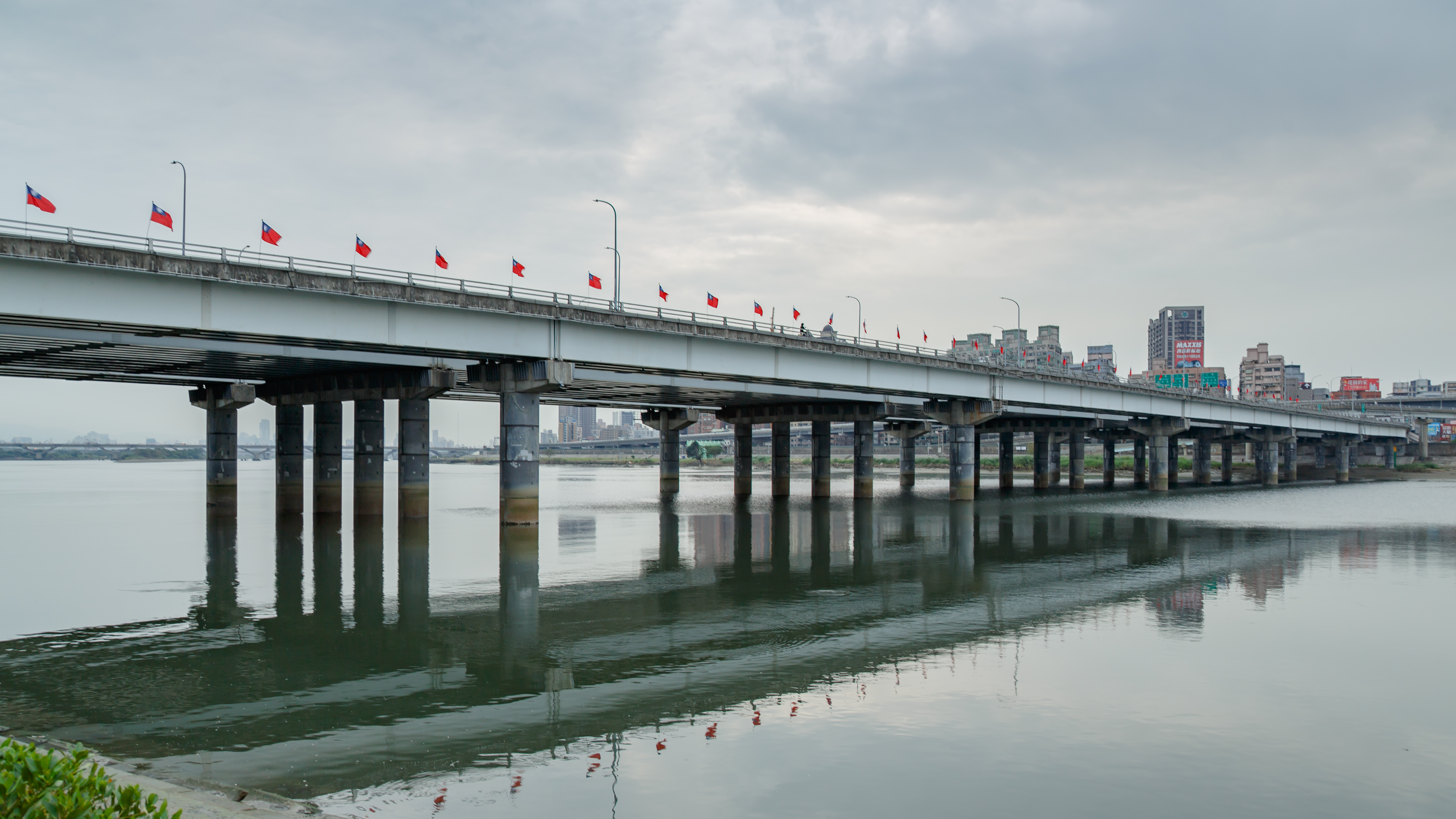 Taipei, Taiwan: Taipei Bridge, decorated with Taiwan National Flag